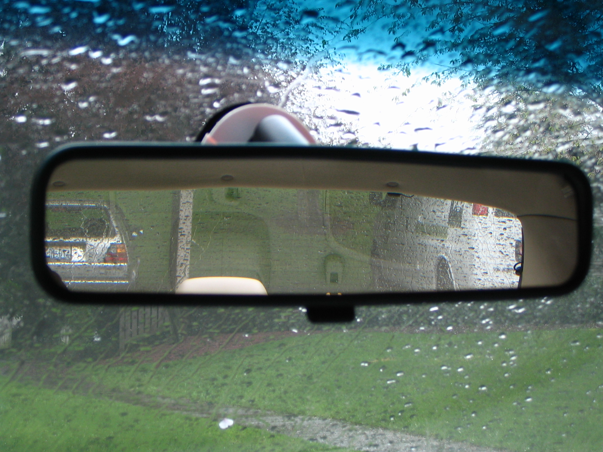 Picture of the rear-view mirror of a Mazda 626 in an apartment complex in Redmond, Washington on a rainy day. The photographer, Derrick Coetzee, irrevocably releases all rights to the work and releases it into the public domain. An orange parking pass hangs from it and it shows cars parked behind the Mazda.